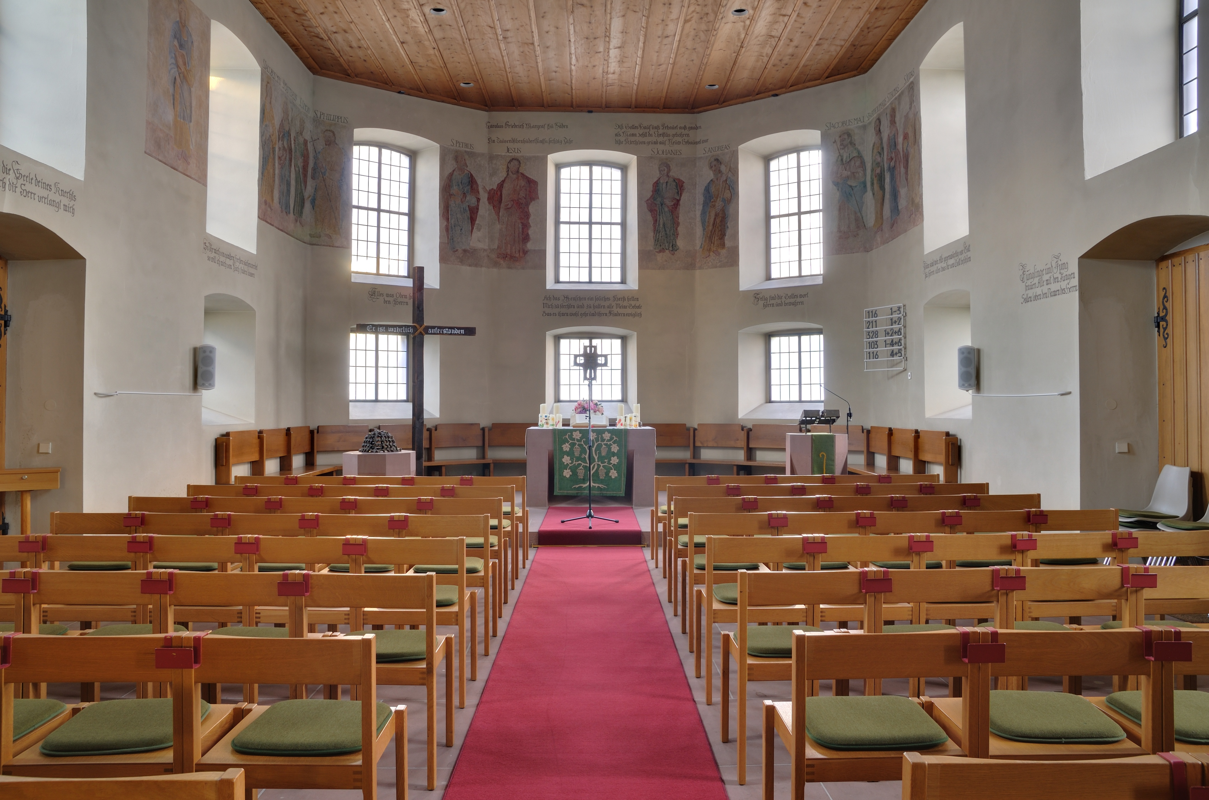 Wintersweiler: Protestant Church